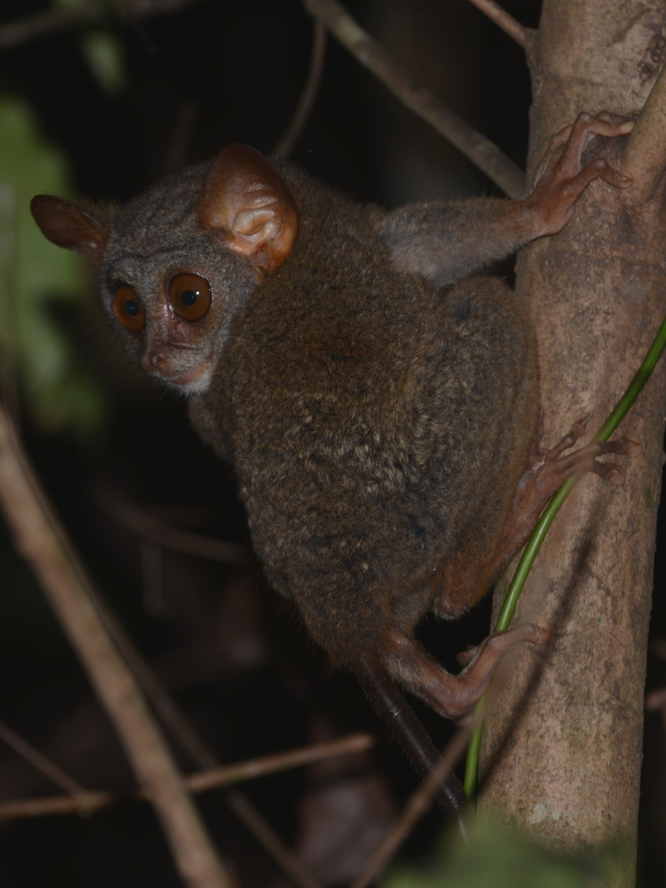 Siau Island Tarsier (Tarsius tumpara) at Mount Tamata, Siau Island, North Sulawesi